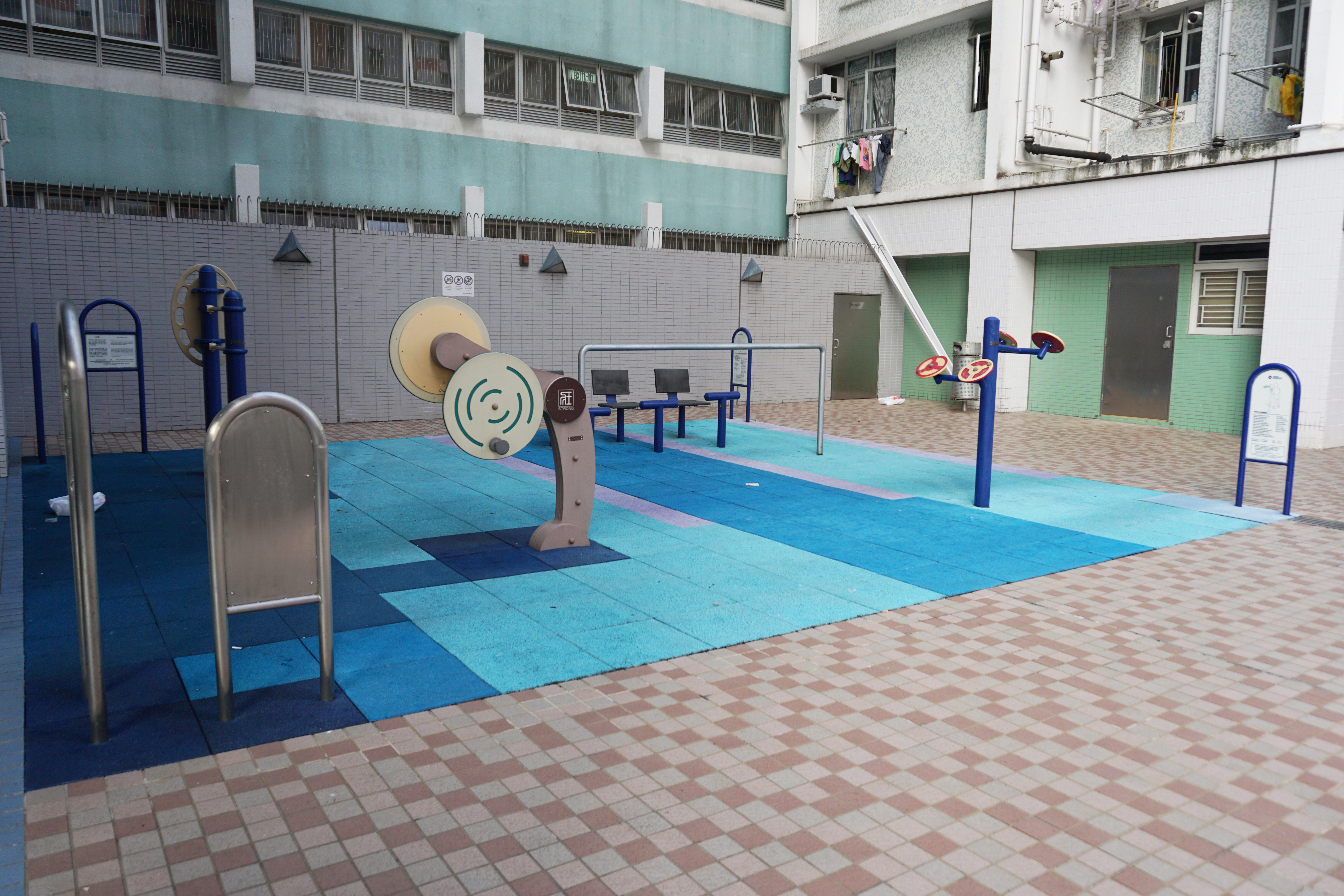 Shek Pai Wan Estate in Aberdeen, Hong Kong.